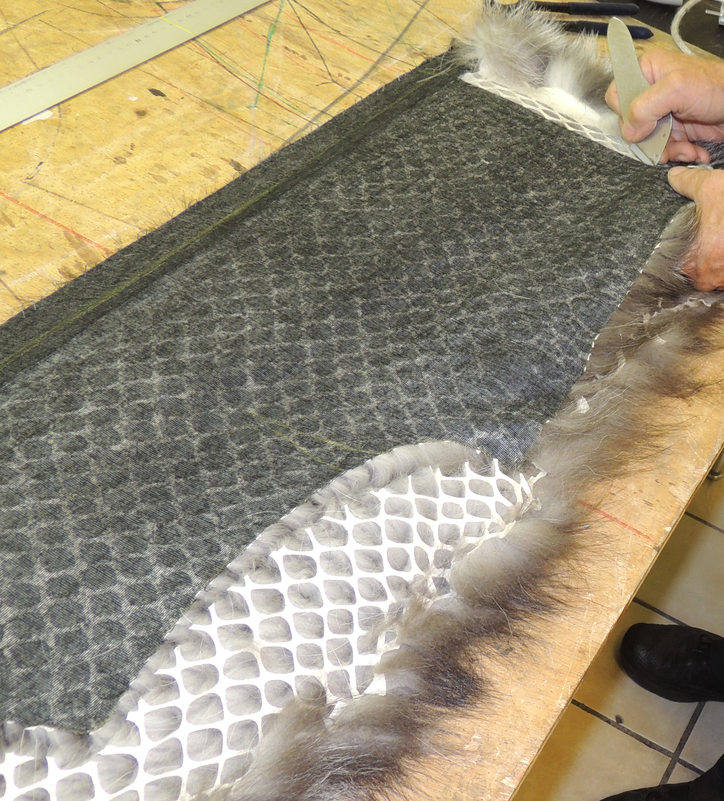 Airgallon, silver fox